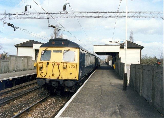 Gatley station - up side Train calling on an Altrincham to Alderley Edge via Styal working.